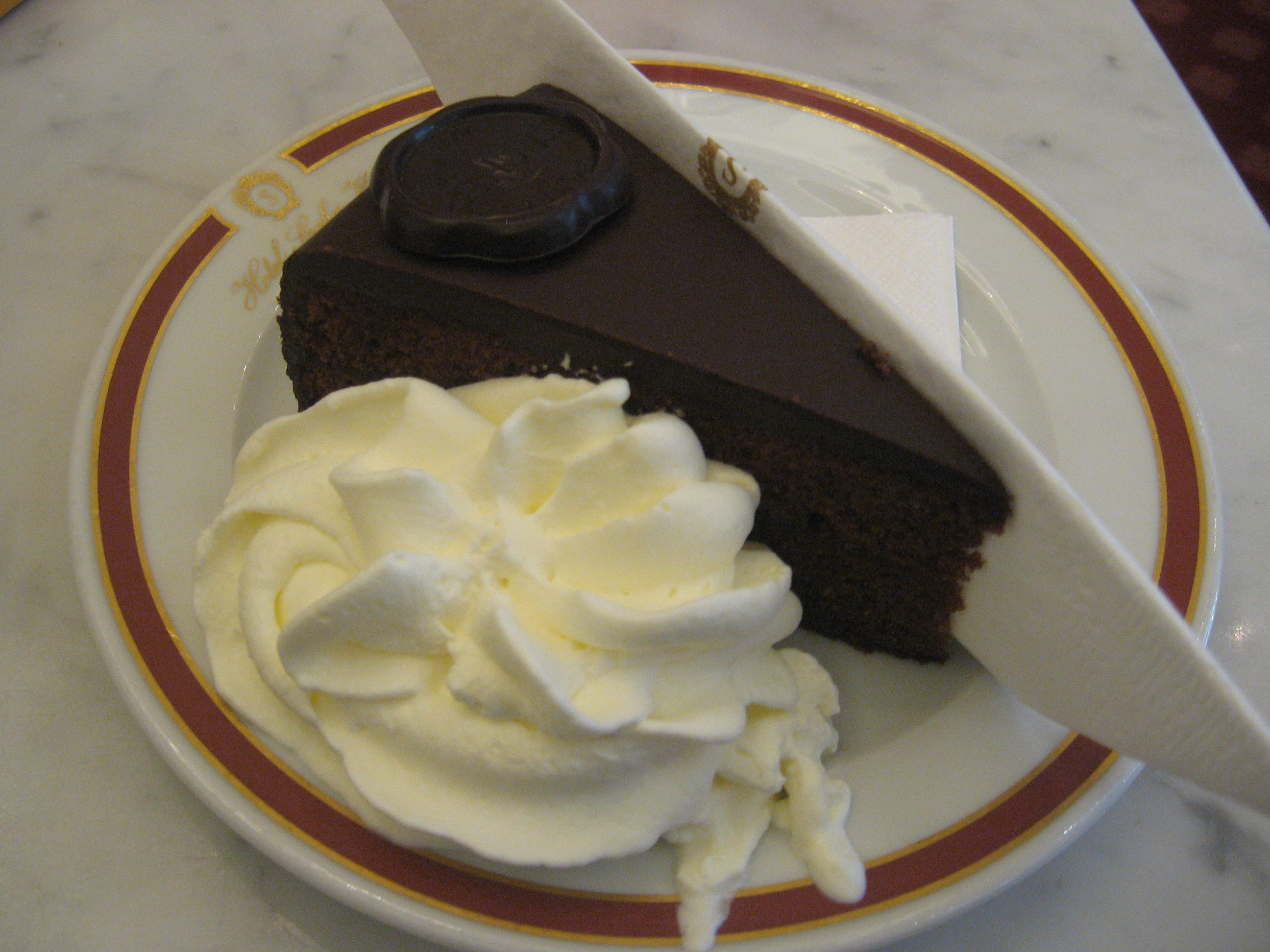 Sachertorte, Cafe Sacher, Vienna